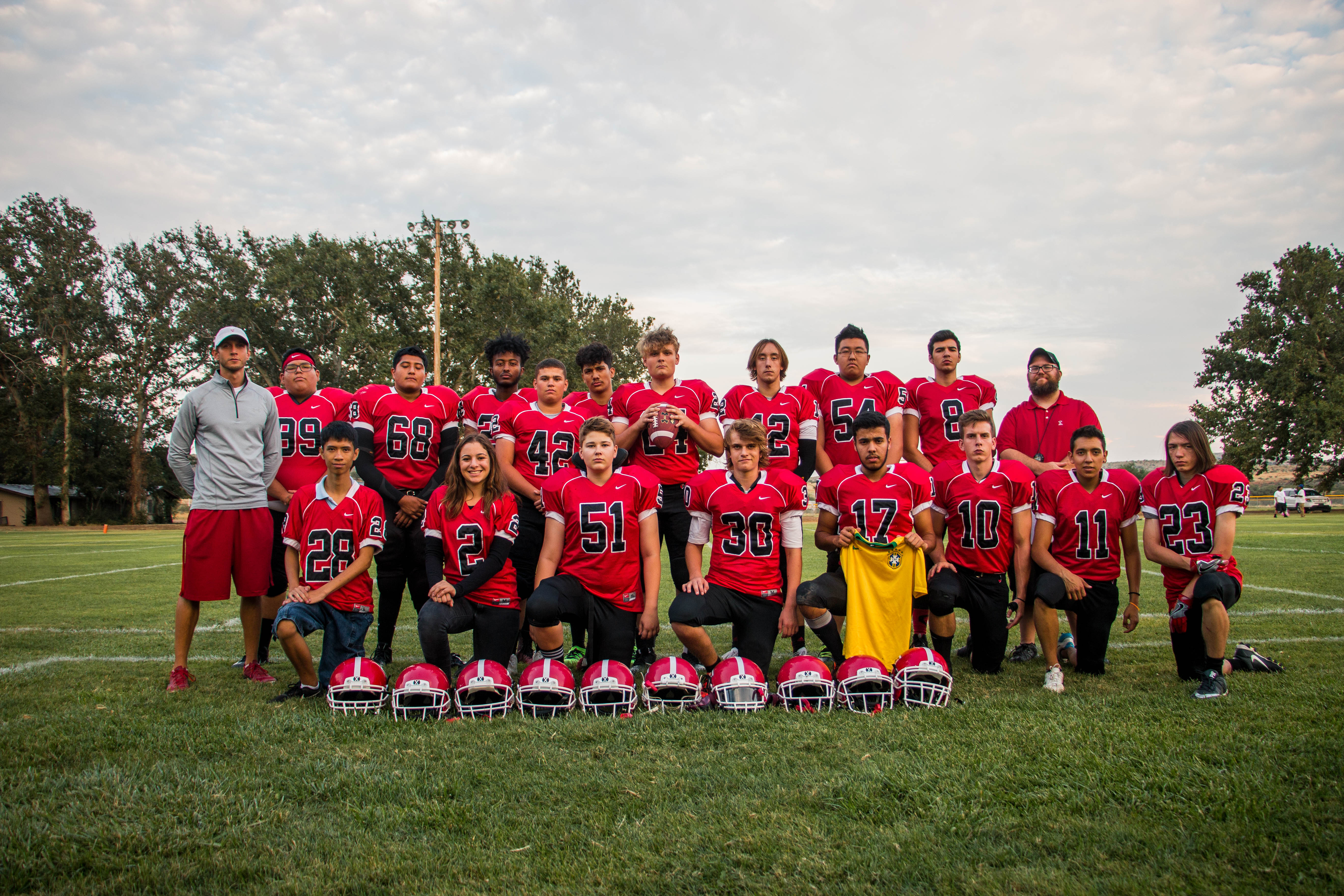 The school football team made it to state's playoffs